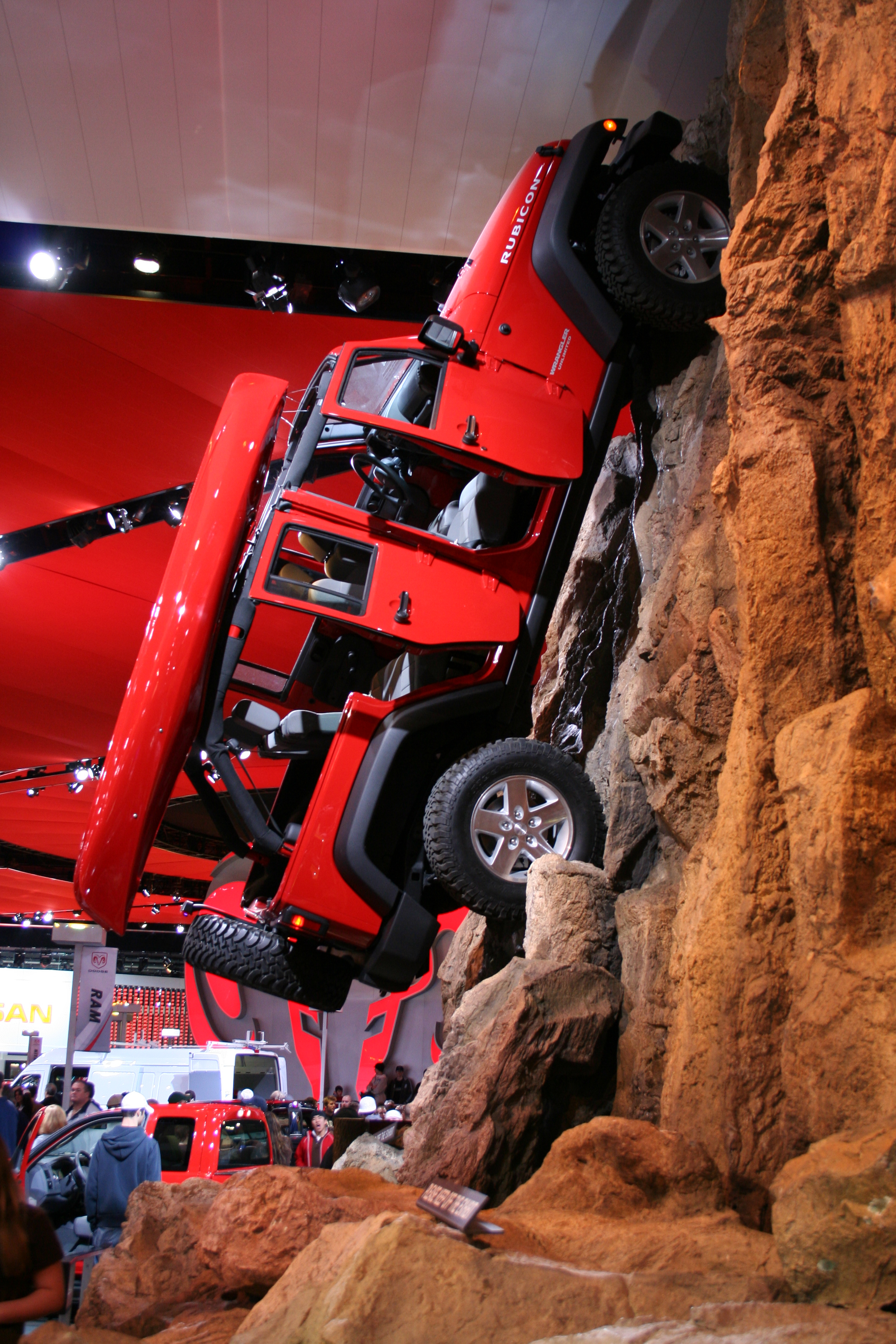 Jeep Wrangler Rubicon vertically mounted to a fake mountain at Jeep's 2007 NAIAS display.